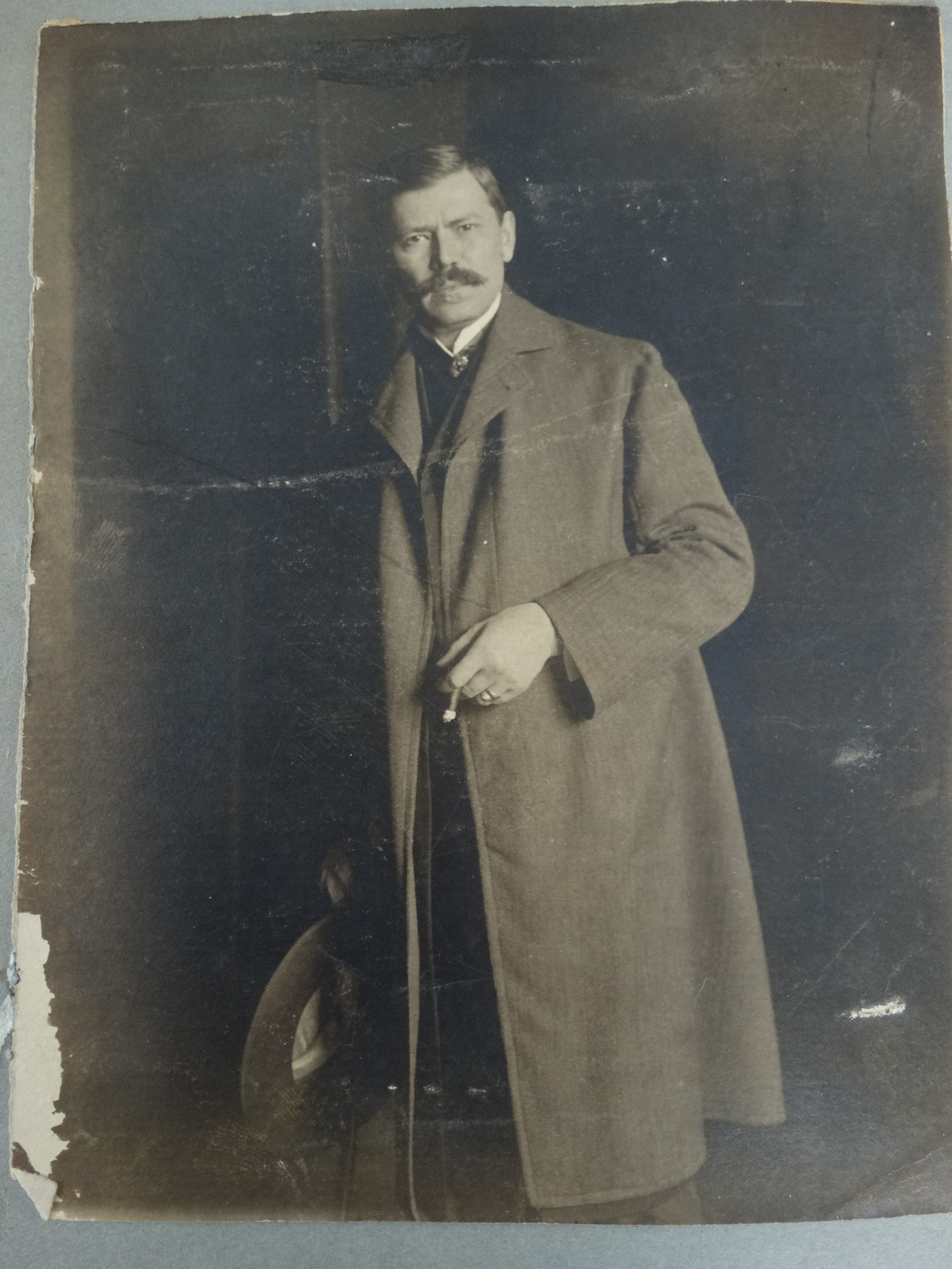 Janos Vaszary, Hungarian painter, 1867-1939.